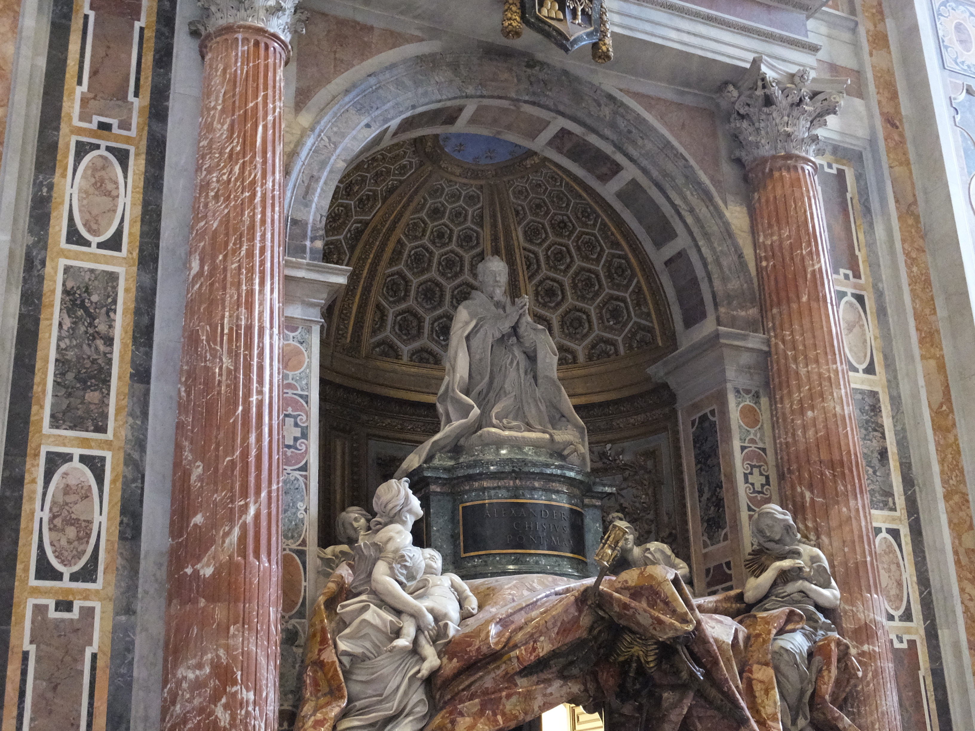 Tomb of Alexander VII in Peter's Cathedral